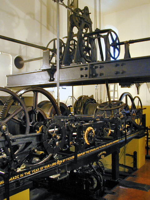 The Westminster clock